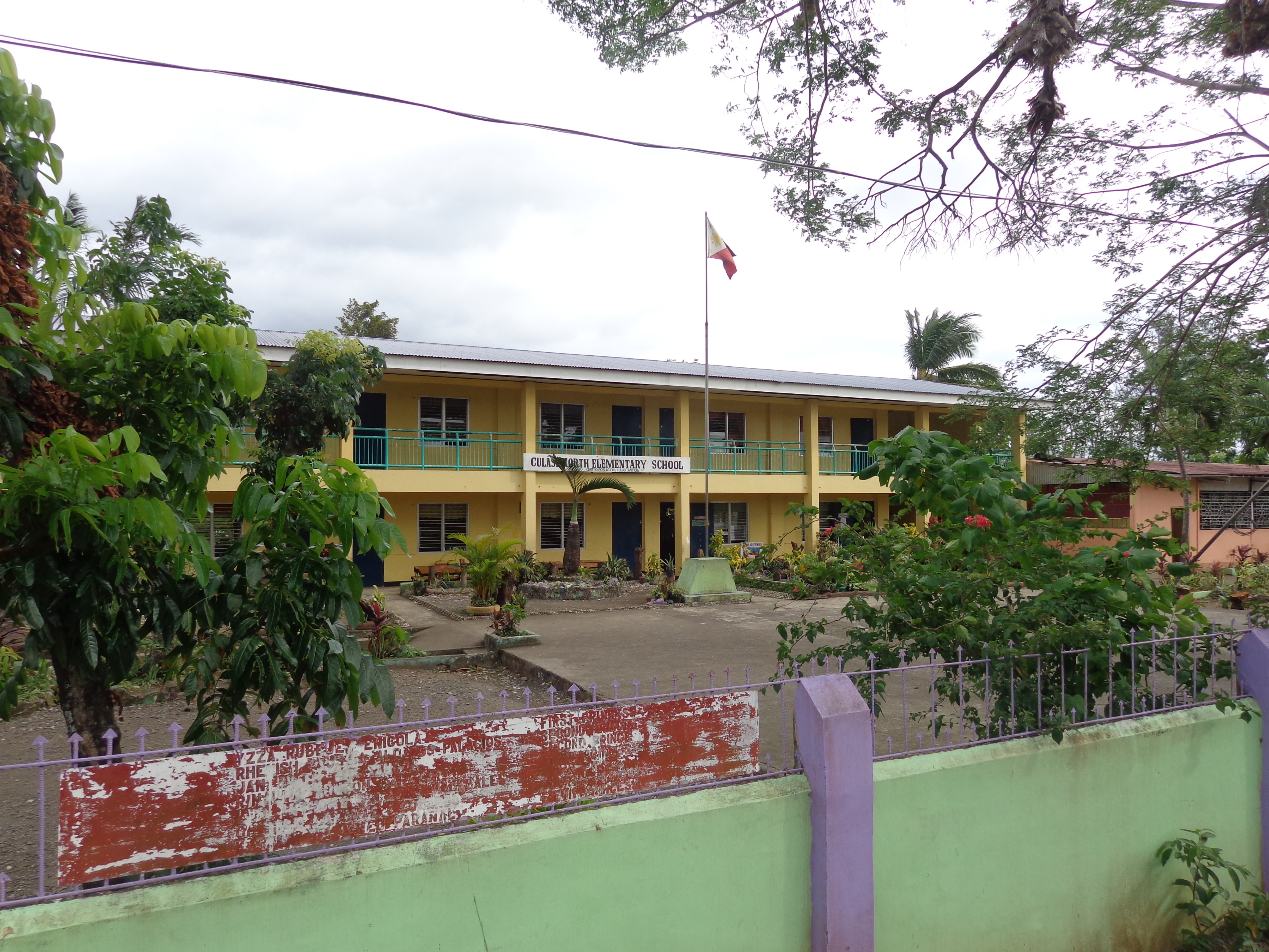 Culasi North Elementary School in Culasi, Antique, the Philippines